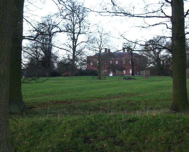 Radbourne Hall Radbourne Hall lies a few miles to the west of Derby. Bonnie Prince Charlie stayed one night at the hall in 1745 on his march south when his army halted at Swarkestone Bridge just south of Derby.